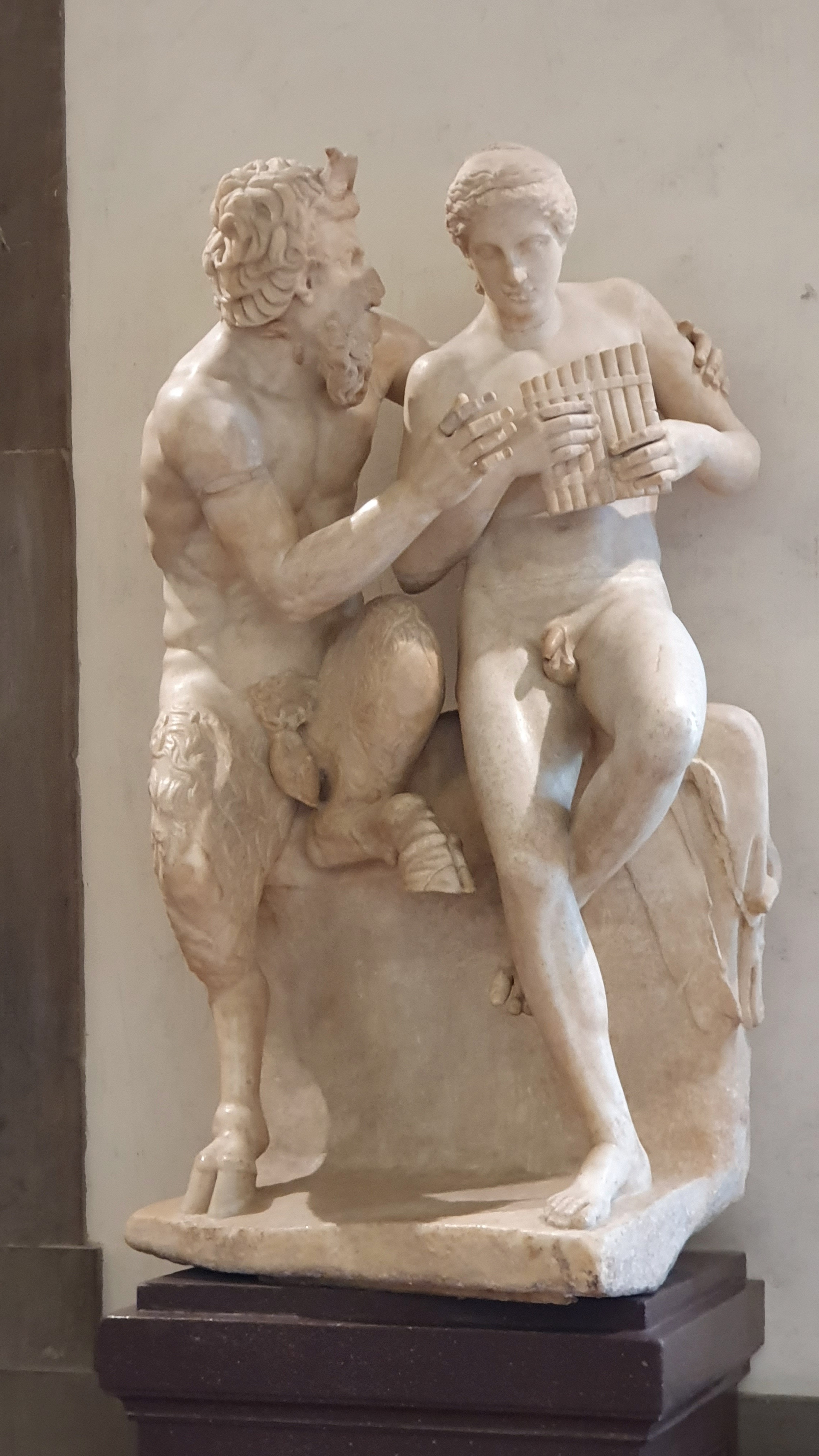 Group of Pan and Daphne at Uffizi Gallery